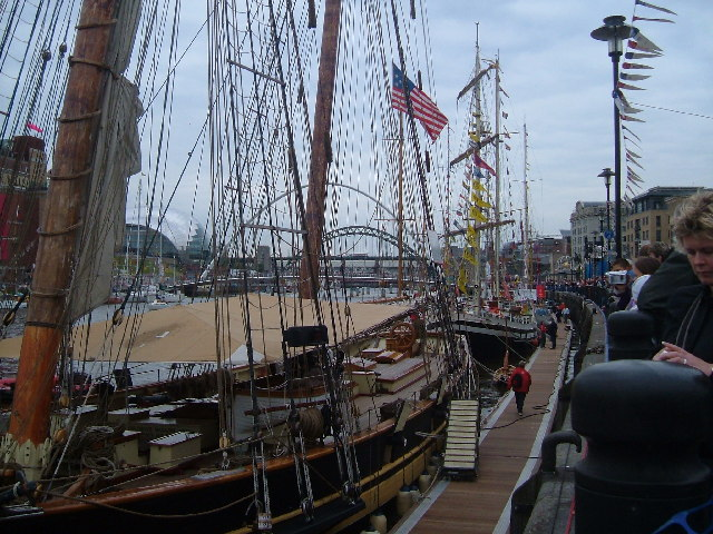 Tall Ships Race.